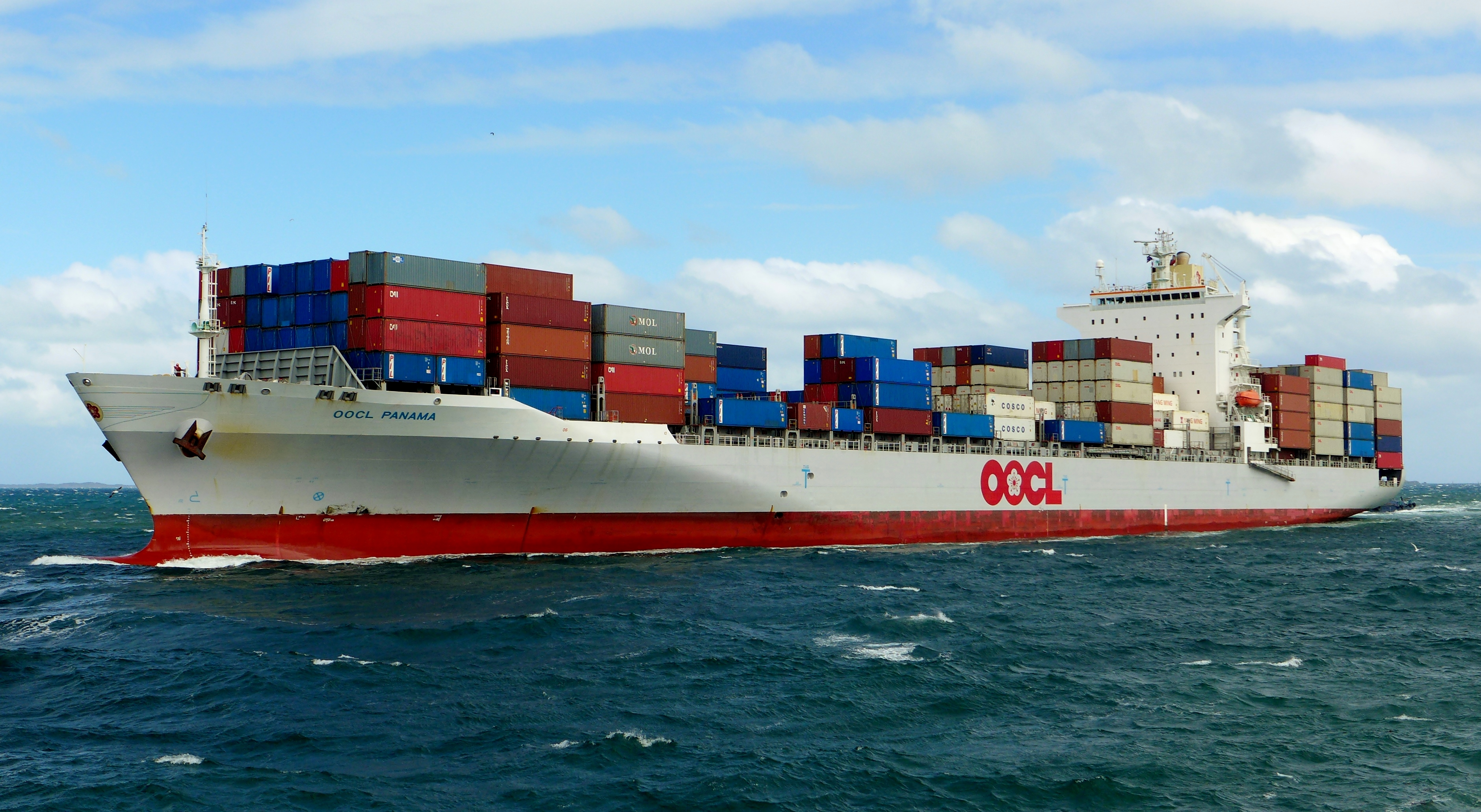 Container ship OOCL Panama entering the inner harbour of Fremantle Harbour, Western Australia, on a liner voyage from Melbourne.